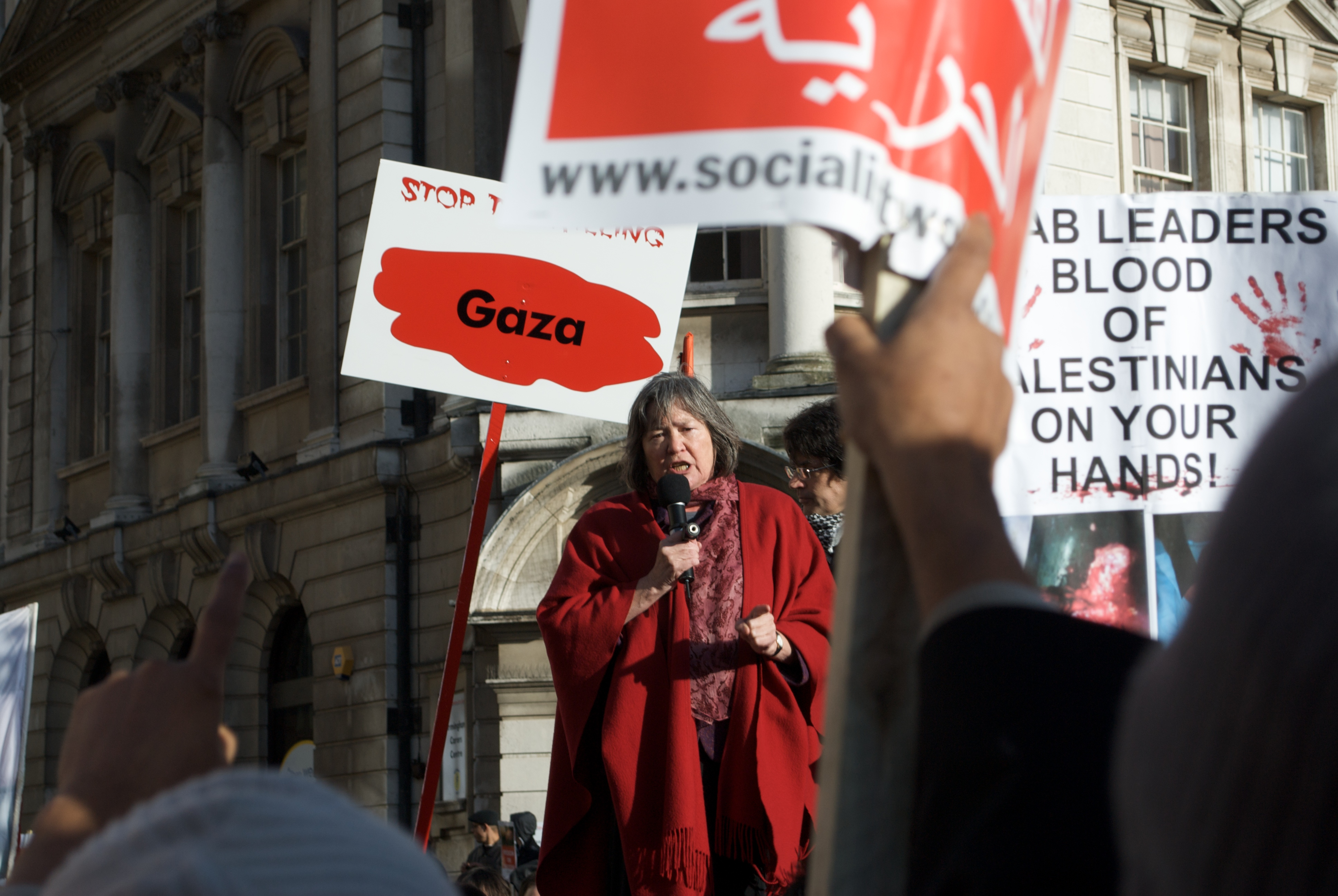 Clare Short, British Labour politician, speaking at a rally in Birmingham urging the crowd to "not forget the crimes being committed against the people of Gaza".